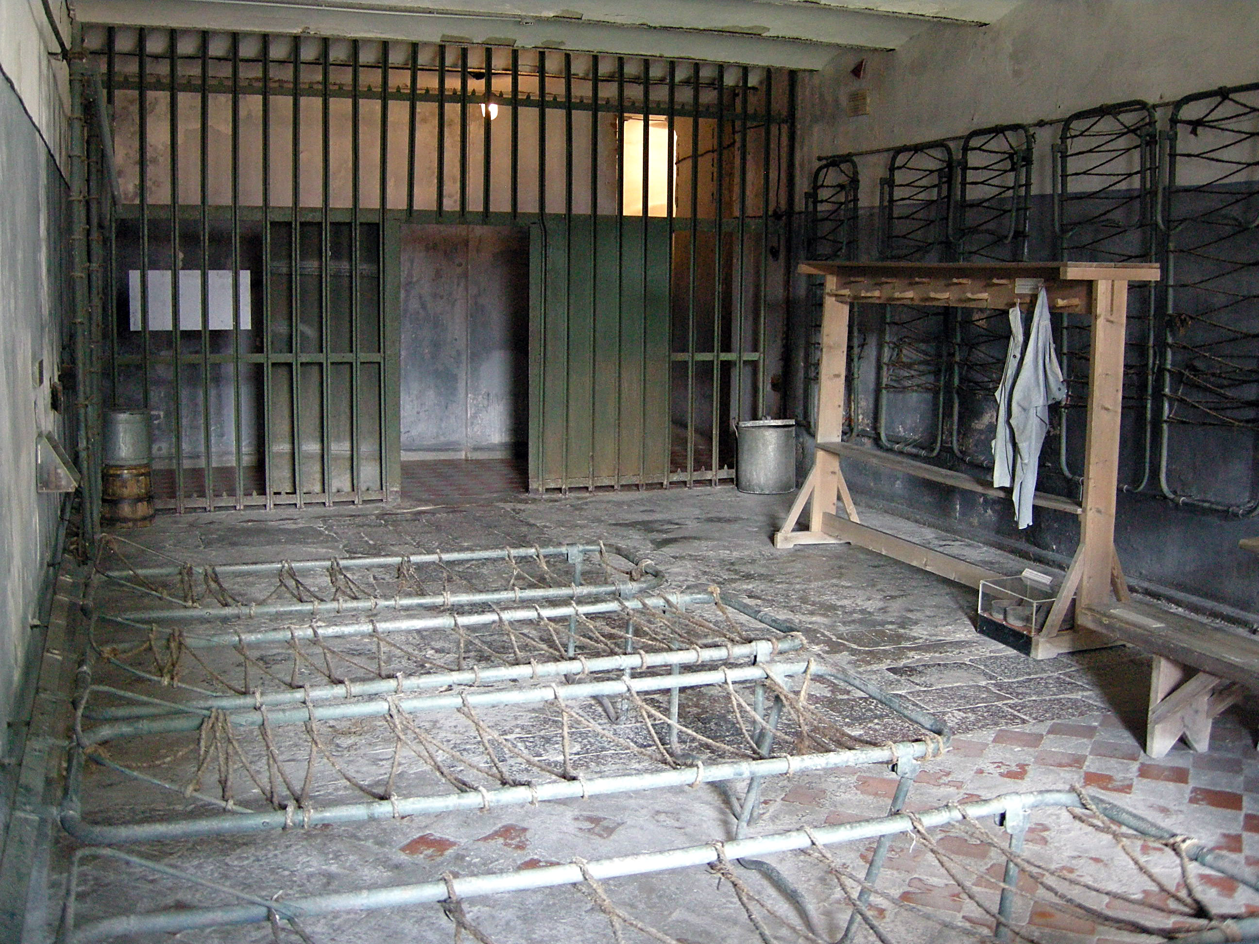 Prison cell in Ninth Fort, part of the Kaunas Fortress.